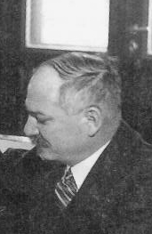 Ivan Maisky